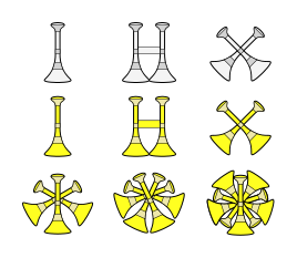 Common Voice Trumpet, aka Bugle, insignia used in US fire services. Not all are used in all departments. Usual meanings: Top Row: Lieutenant, Captain, Senior Captain* Second Row: Lieutenant* or Inspector*, Staff Captain or Captain, Battalion Chief. Third Row: Assistant Chief, Deputy Chief, Chief.